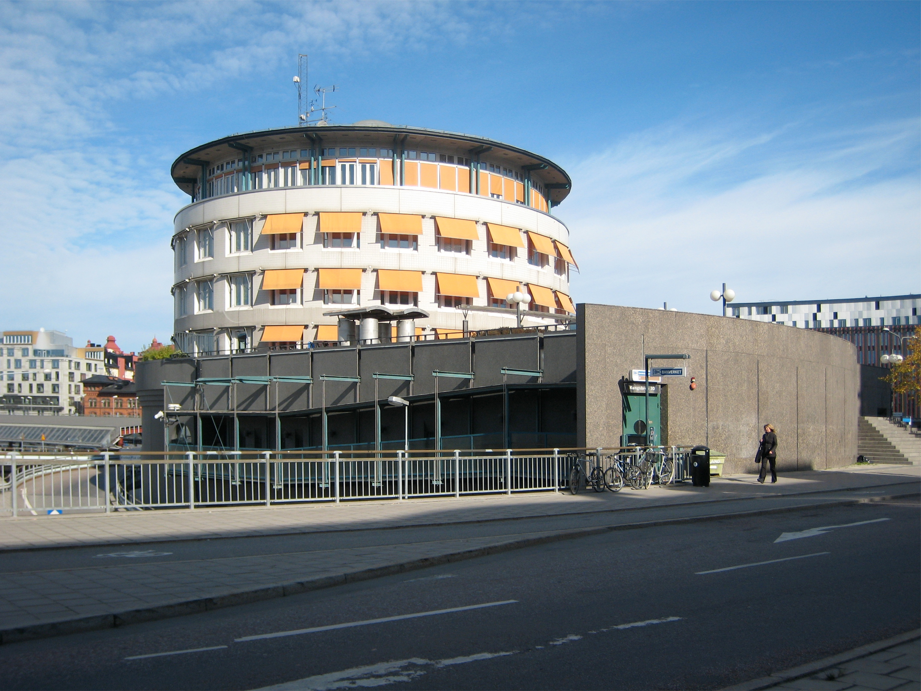 Runda huset